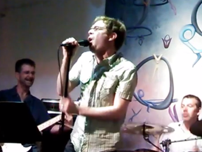 Bradley Skaught performing "Sleeping Through Heaven" with Game Theory at memorial tribute to Scott Miller, in Sacramento, California, on July 20, 2013. L-R: Fred Juhos, Skaught, Michael Irwin.